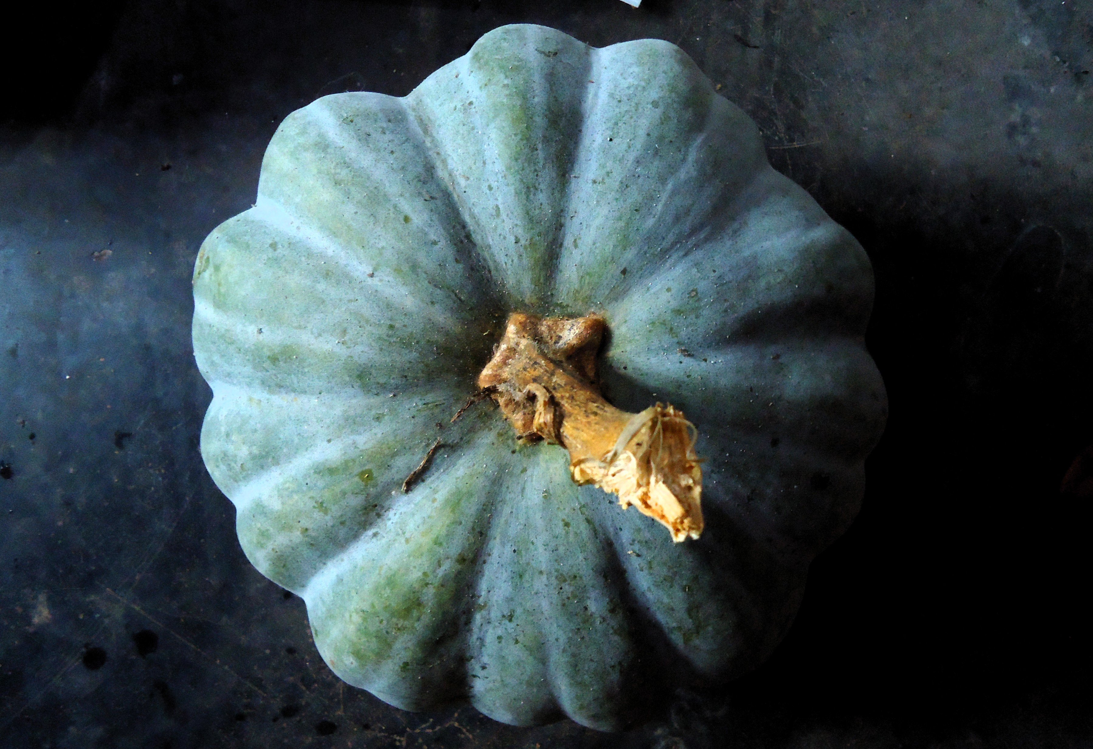 A Full Pumkin cut from the plant.